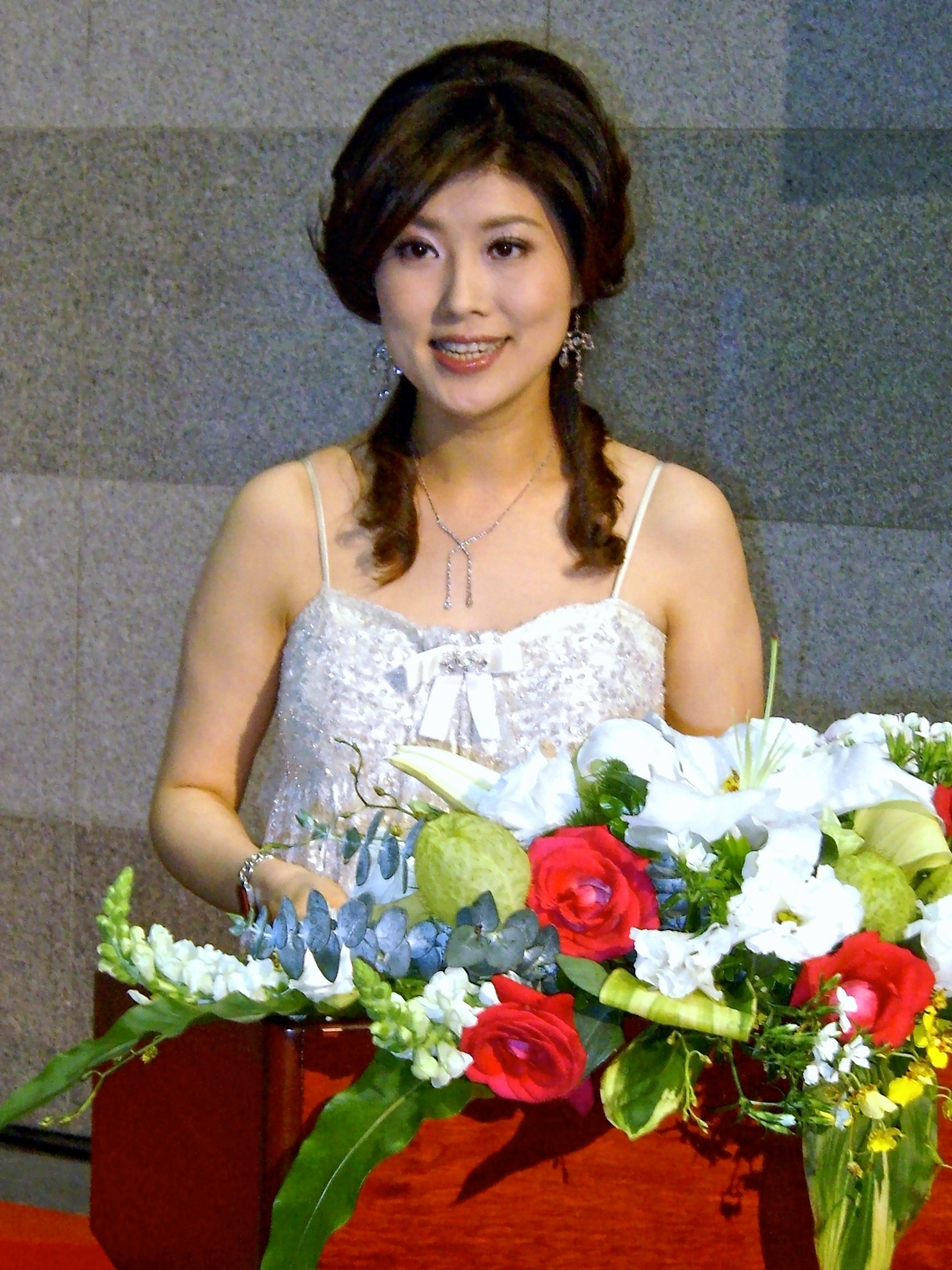 Grand Opening of TWTC Nangang & 2008 Taipei Cycle: Amanda Jing-yu Li, News Anchor in Taiwan.